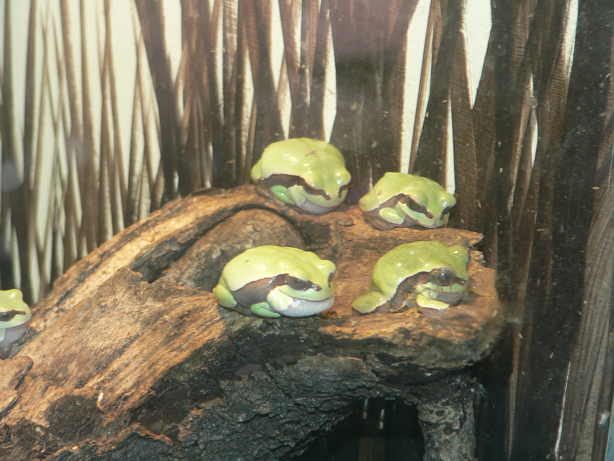 Pine Barrens Tree Frog at Philadelphia Zoo.